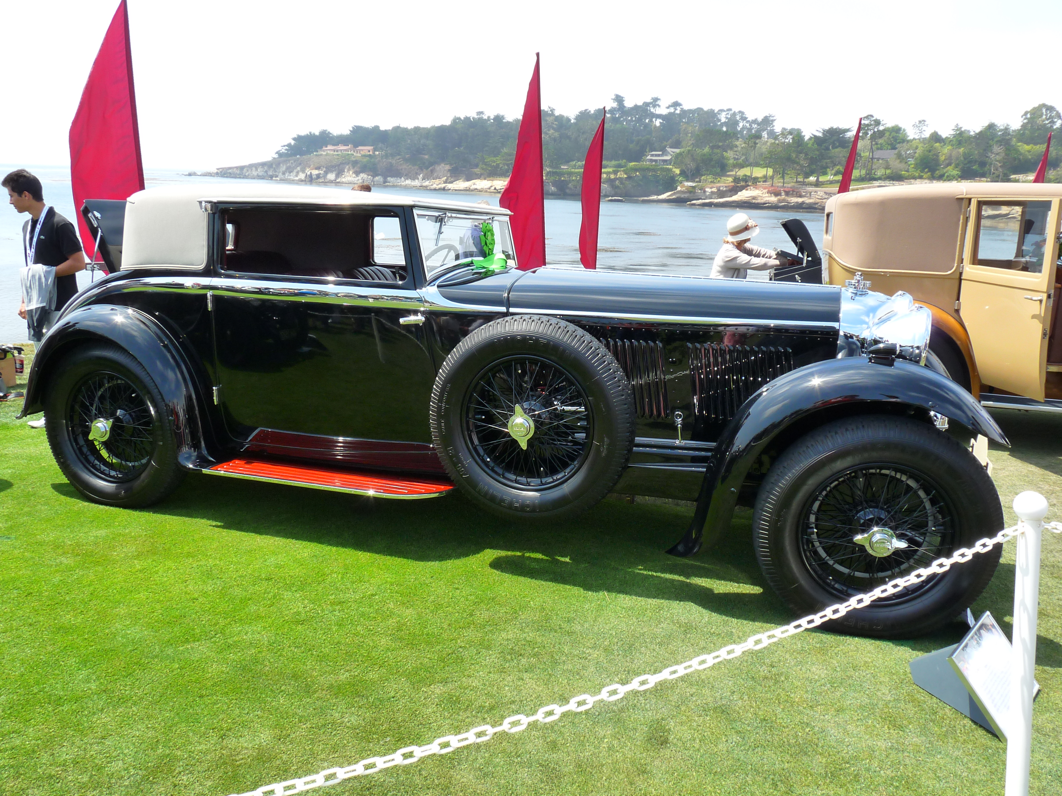 Bentley Speed Six coupé Weymann body by J Gurney Nutting 1930 Original coachwork Chassis LR2788 11ft 6inches wheelbase Engine HM2853 Speed Six Reg GC 3661 delivered January 1930 image of the car when new